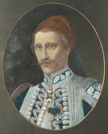 George Ainian, Greek politician (died 1847 or 1848)